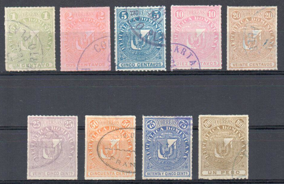 Dominican Republic 1890 Sc. #36-44, used set.